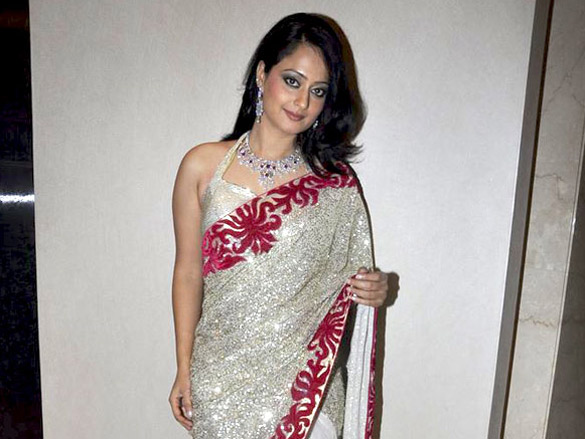 Kaveri Jha at Aarti Chabria, Priyanka Kothari and many others walk for Manali Jagtap